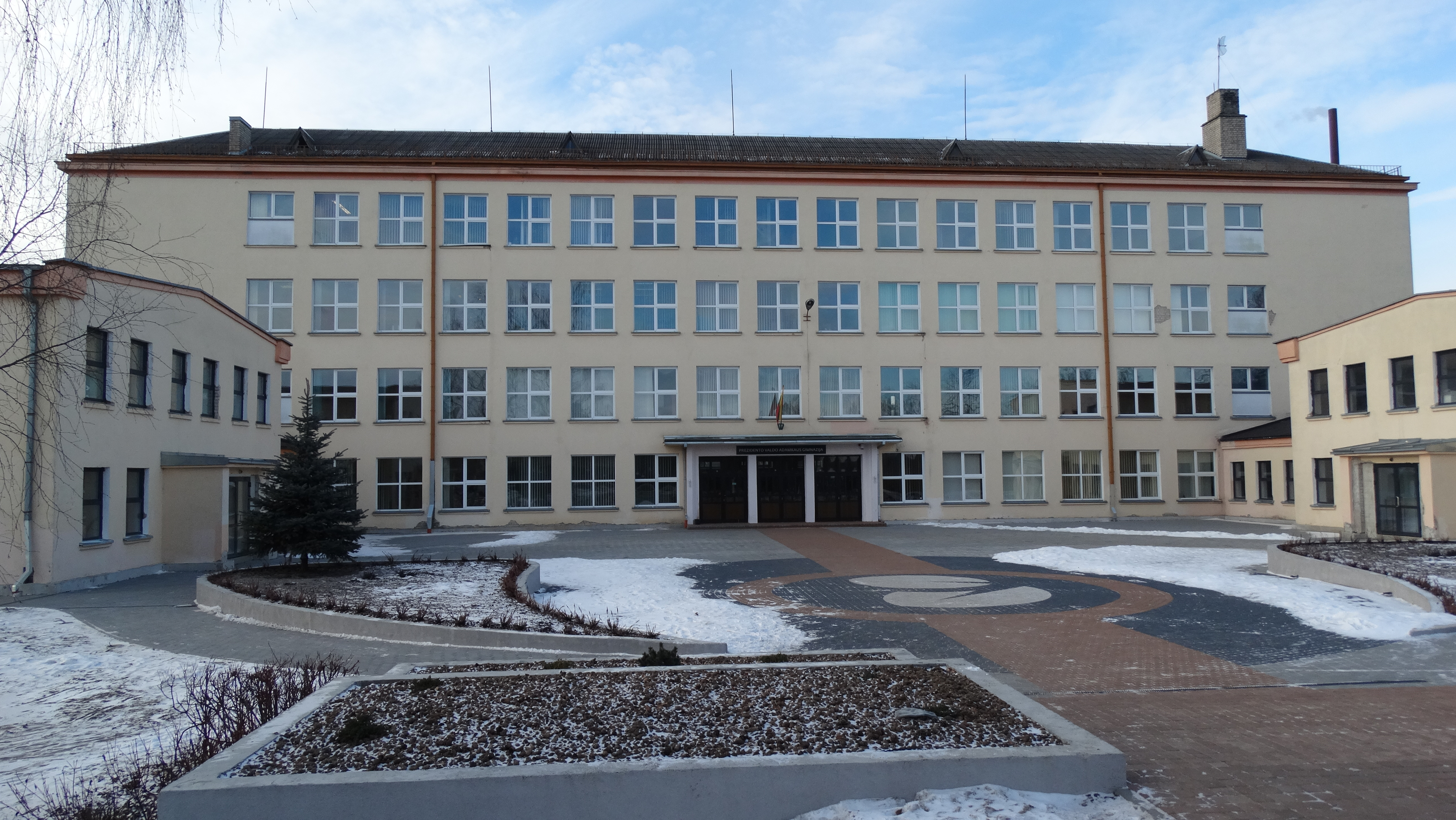 Valdas Adamkus Gymnasium, Kaunas, Lithuania